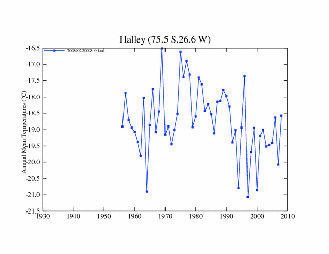 Climate graph of 1956 2009 air average temperaturas of Halley Research Station